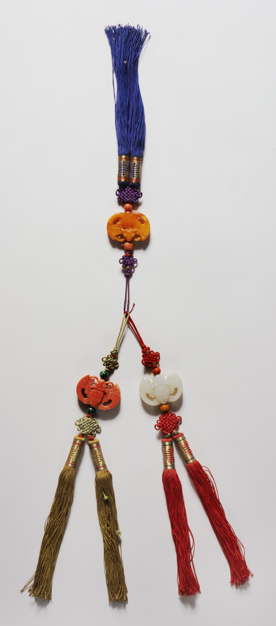 Korea, Joseon dynasty (1392-1910), 19th century Jewelry and Adornments Carved amber, coral, and jade with knotted and metal-wrapped threads and silk string Purchased with Museum Funds (M.2000.15.213a-c) Korean Art